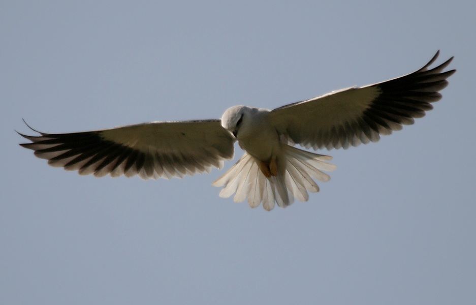 Black-winged Kite Elanus caeruleus in Hyderabad, India.